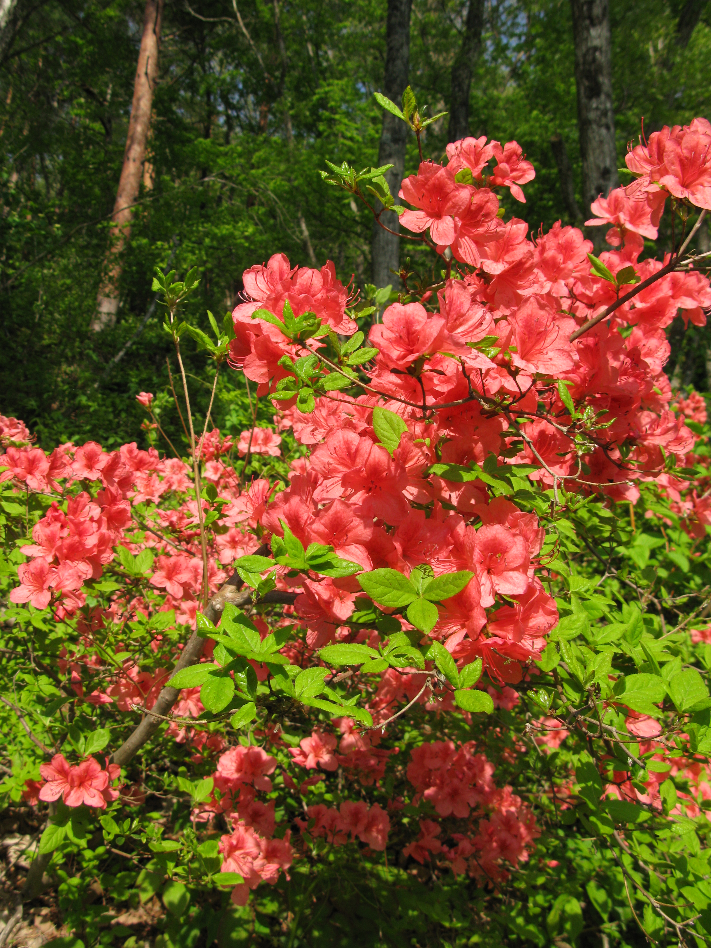 Rhododendron kaempferi, Aizu area, Fukushima pref., Japan